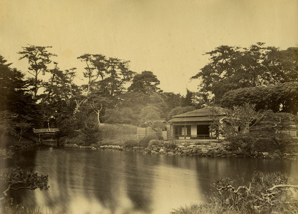 THE TYCOON’S SUMMER GARDENS AT YEDO. MR. LEIGHTON remarks with reference to the Japanese—“They seem fond of sensations, the sweet, the soft, and pretty is heightened by the grotesque, yet all in harmony.” In all their gardens and grounds there is a great similarity of ornament; miniature lakes of more or less capacity, will trimmed lawns of smooth green turf—varieties of quaintly trimmed shrubs, and trees tortured into queer shapes, imitating junks under full sail, candelabra, tortoises, cranes and other objects, abound. The graceful bamboo, the more stately forest trees, shrubs with variegated leaves, alternate with clusters of azaleas, and bright flowers in profusion. Pretty little tea-houses—bridges spanning artificial ponds where gold-fish are kept—platforms also projecting into these little lakes, where anglers may amuse themselves; and trellis-work arbours with vines and creepers trained over them, are not wanting in this quiet retreat of the Tycoon. There is one part of these gardens set aside for hawking—a sport which is reserved for the higher and privileged classes in most parts of Japan, and is limited to the Tycoon alone within his domain—so much so that no private individual may even keep a falcon.